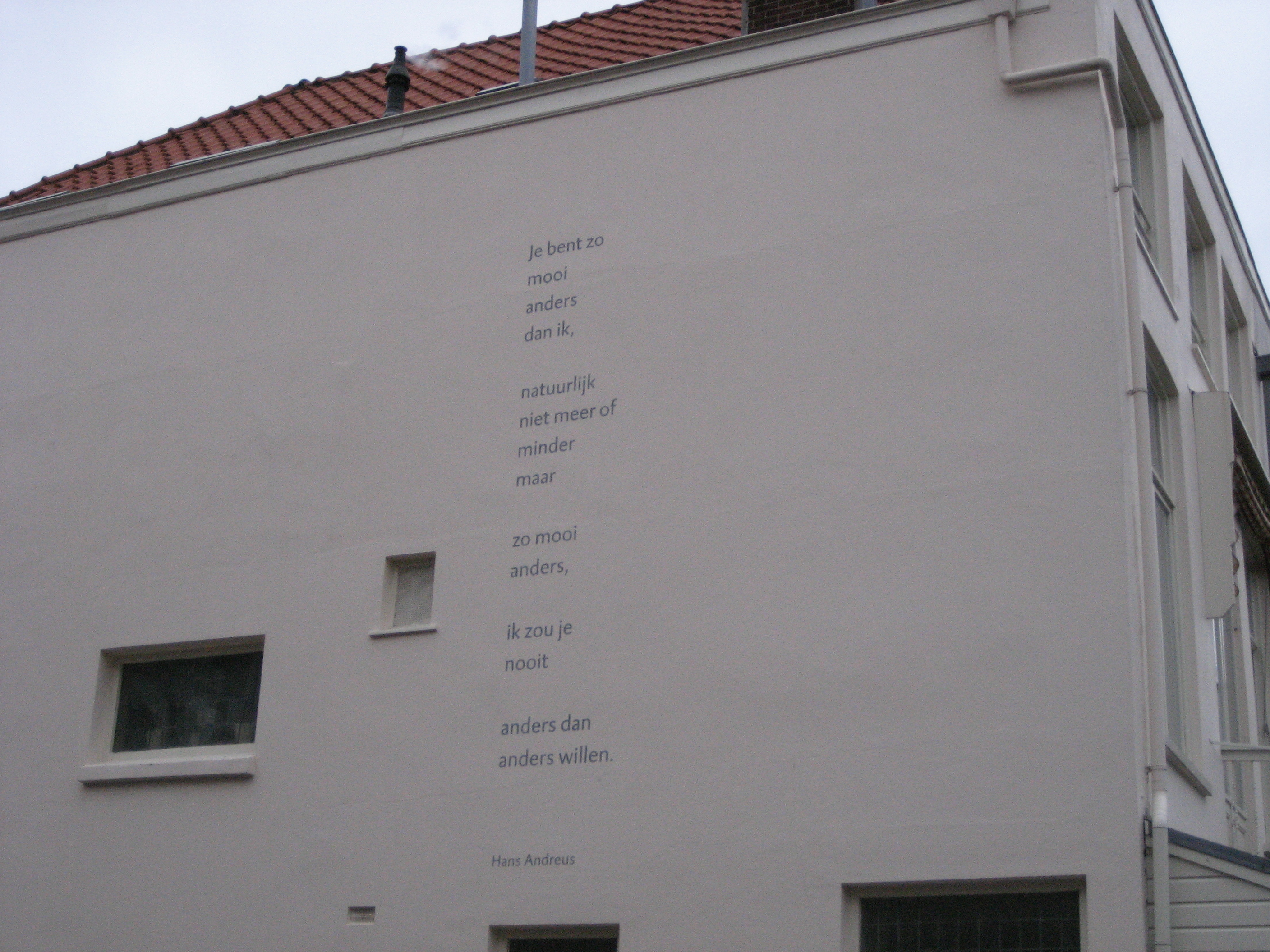 Hans Andreus: Jij ben zo / mooi / anders / dan ik. Wall poem in the Surinamestraat, corner Laan Copes van Cattenburch, The Hague (NL). Letter: DTL Caspari; typographer: Gerard Daniëls